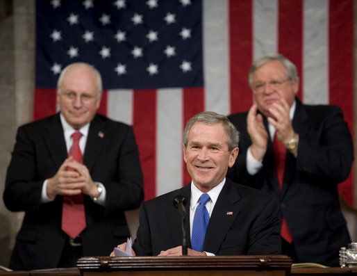 President George W. Bush reacts to applause during his State of the Union Address at the Capitol, Tuesday, Jan. 31, 2006.